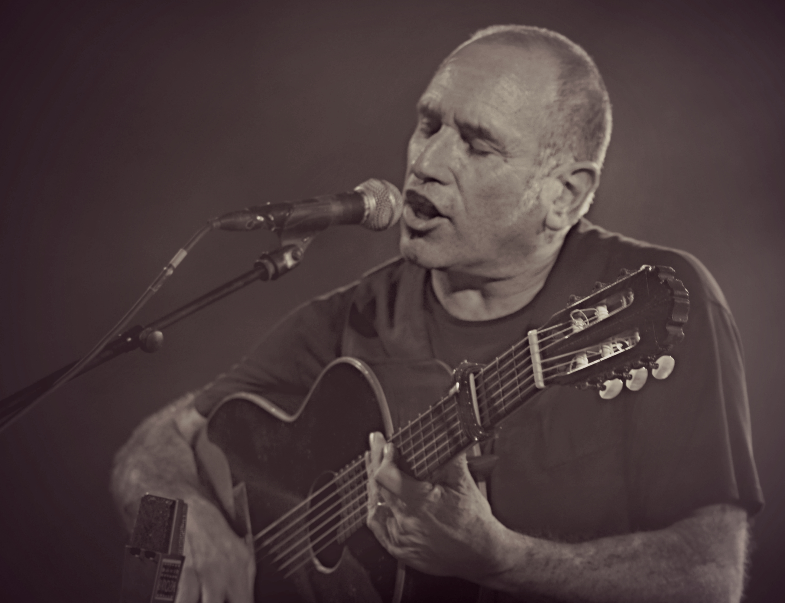 David broza at Masada Gala celebrating twenty years at Masada On love TU B'Av The show took place at the Roman ramp On the Western side of the mountain With a large audience that comes every year to masada Listen to is poems